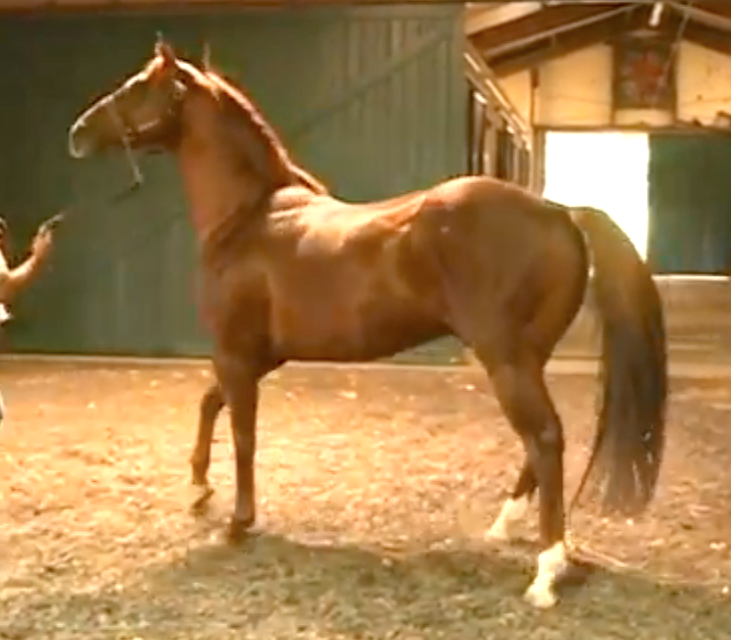 Lucky Pulpit, Thoroughbred racehorse and sire of 2014 Kentucky Derby winner California Chrome.